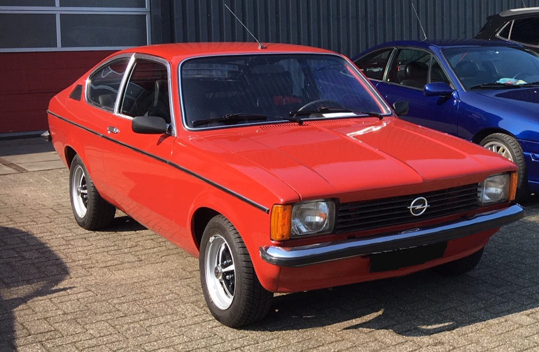 Kadett c coupe at a meeting